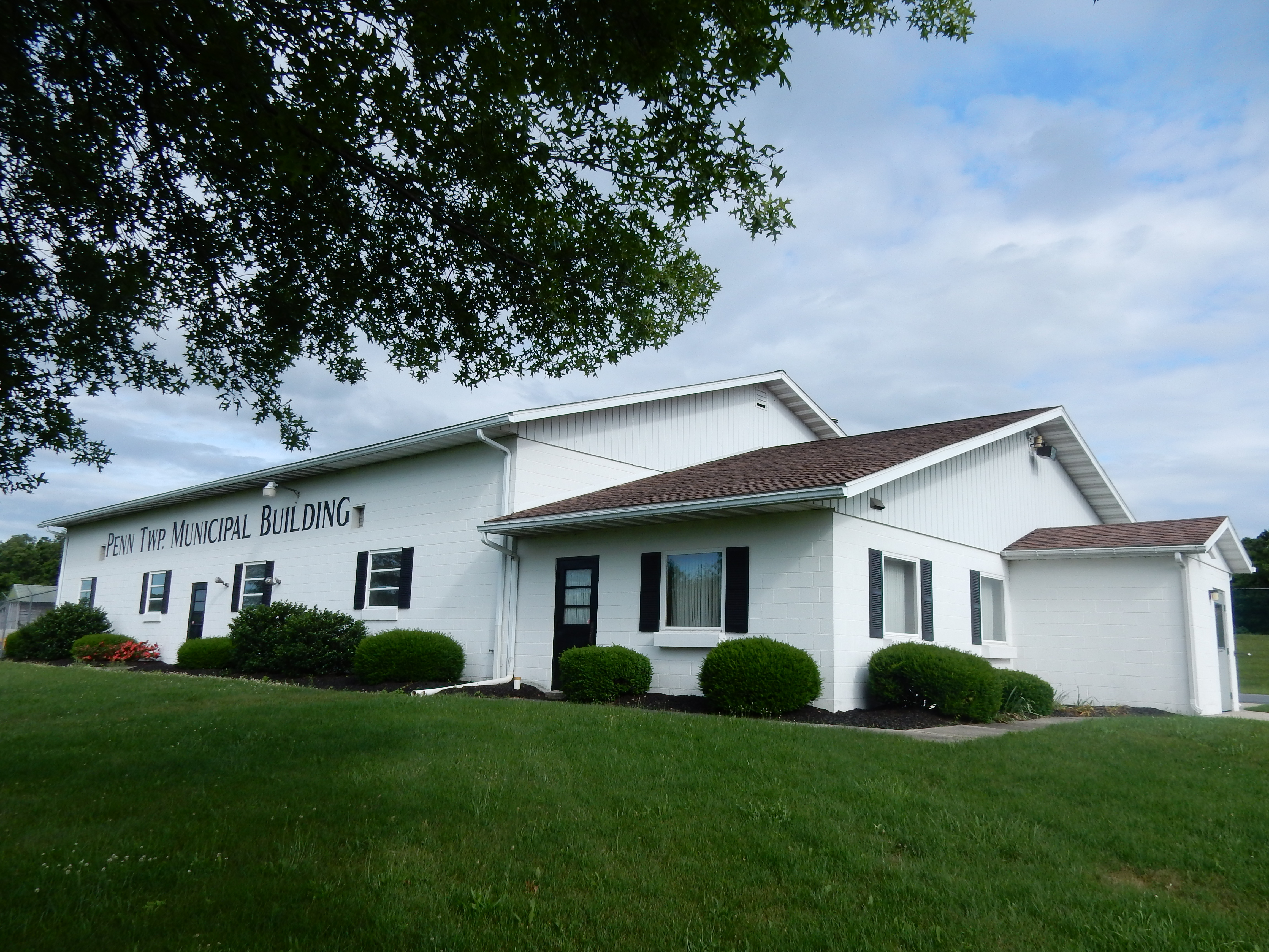 Penn Township, Berks County, Pennsylvania. Municipal building. 840 N. Garfield Rd. Bernville, PA.